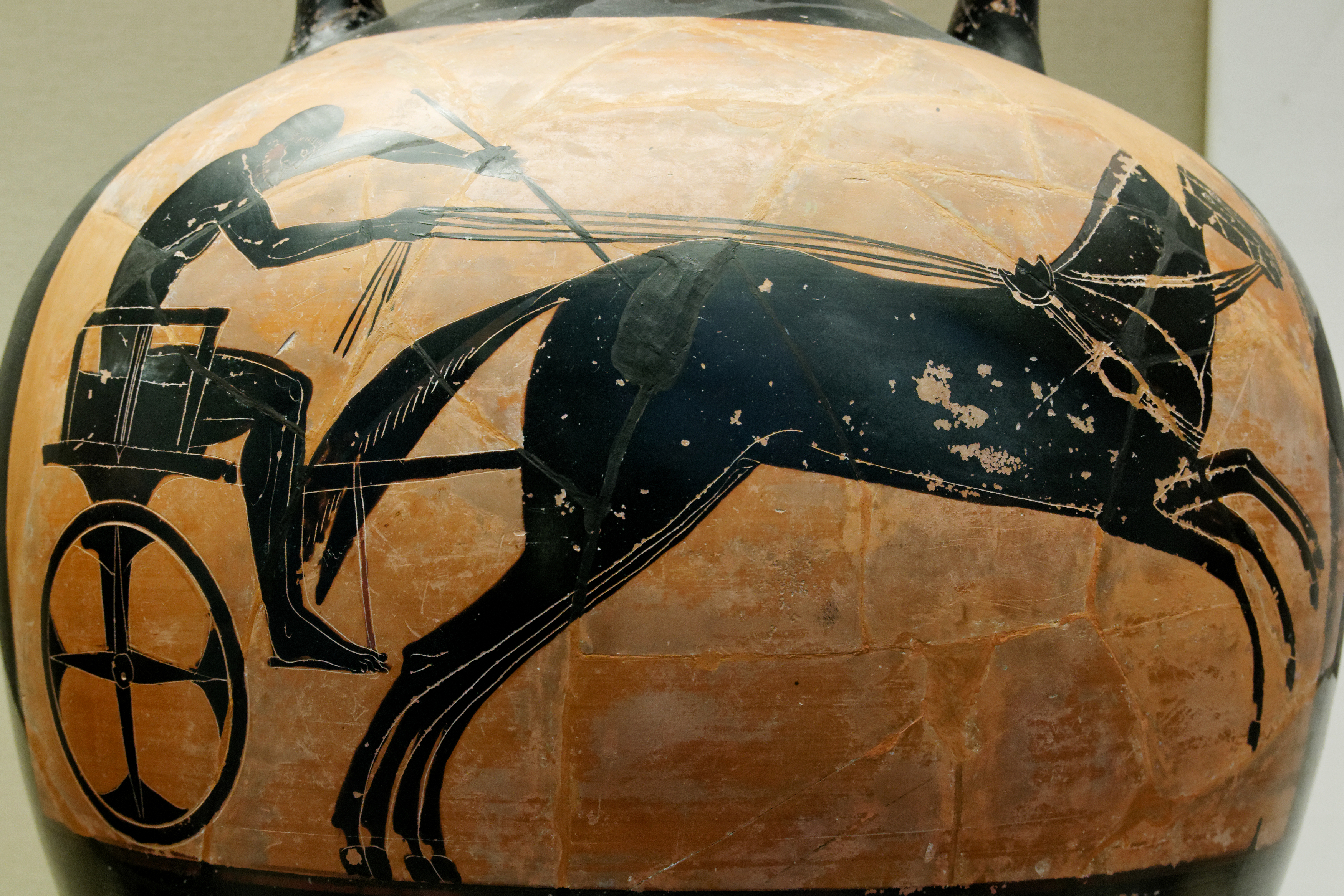 Bearded charioteer driving a mule-cart. Side A of an Attic black-figured Panathenaic prize amphora.